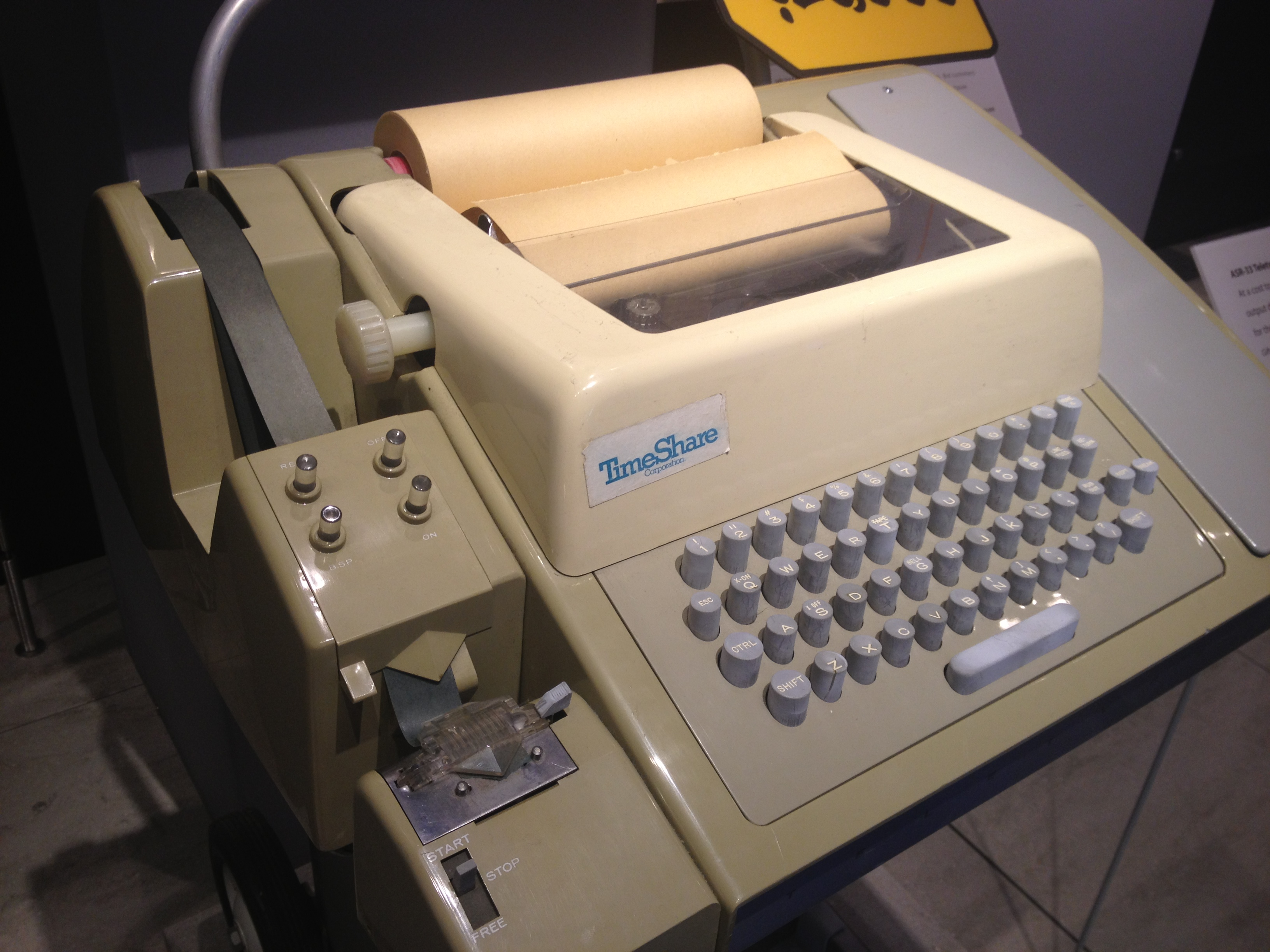 Teletype Corporation ASR-33 on display at the Computer History Museum.